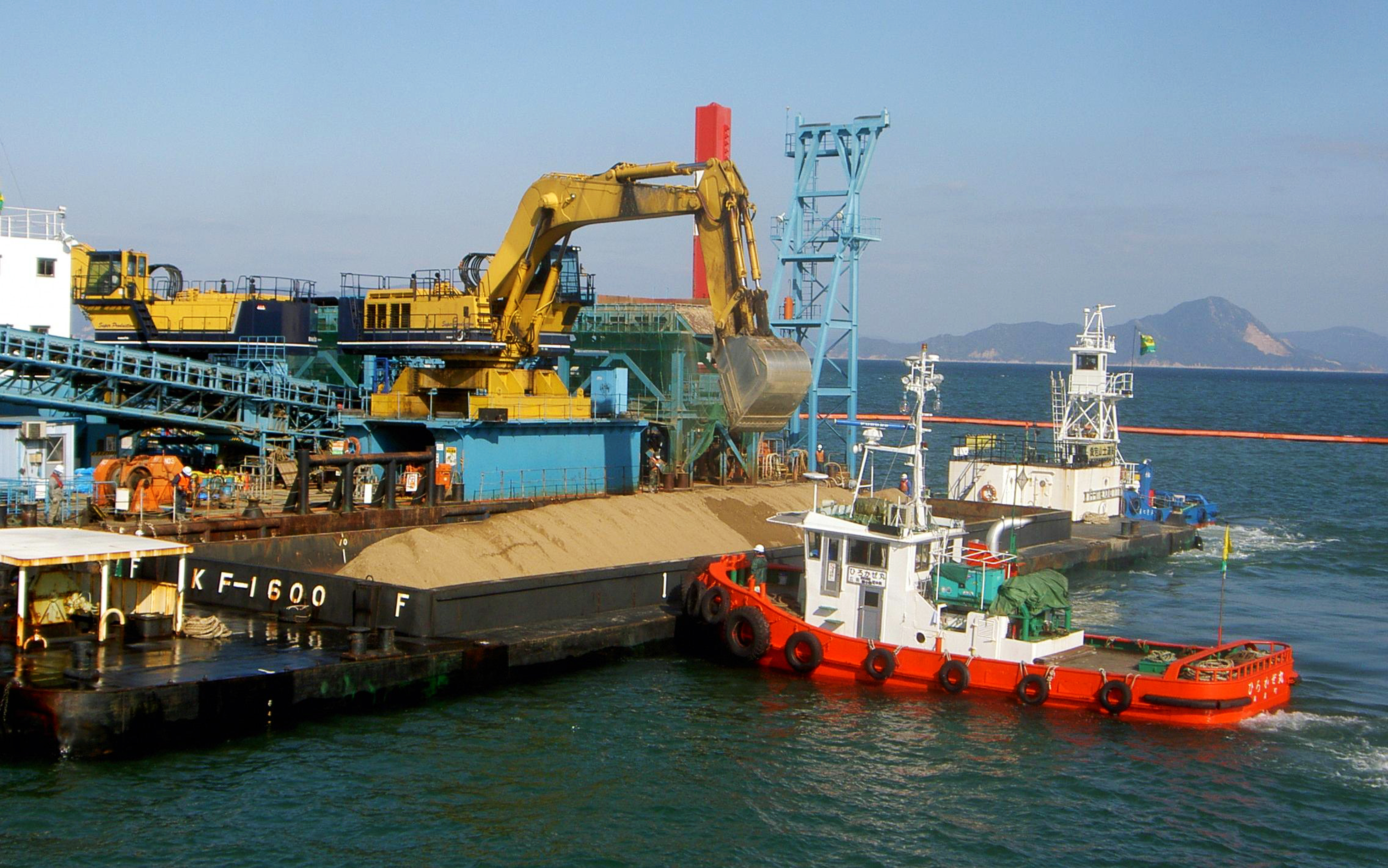 A crane transports soil from a barge onto a conveyer belt during the process of building the newly finished runway. Construction of the new runway involved the joint efforts of the government of Japan, the Ministry of Defense, the Chugoku-Shikoku Defense Bureau, the Japanese construction industry, the U.S. Army Corps of engineers, the Naval Facilities Engineering Command Pacific, the Marine Corps Air Station Iwakuni Facilities Department and others.